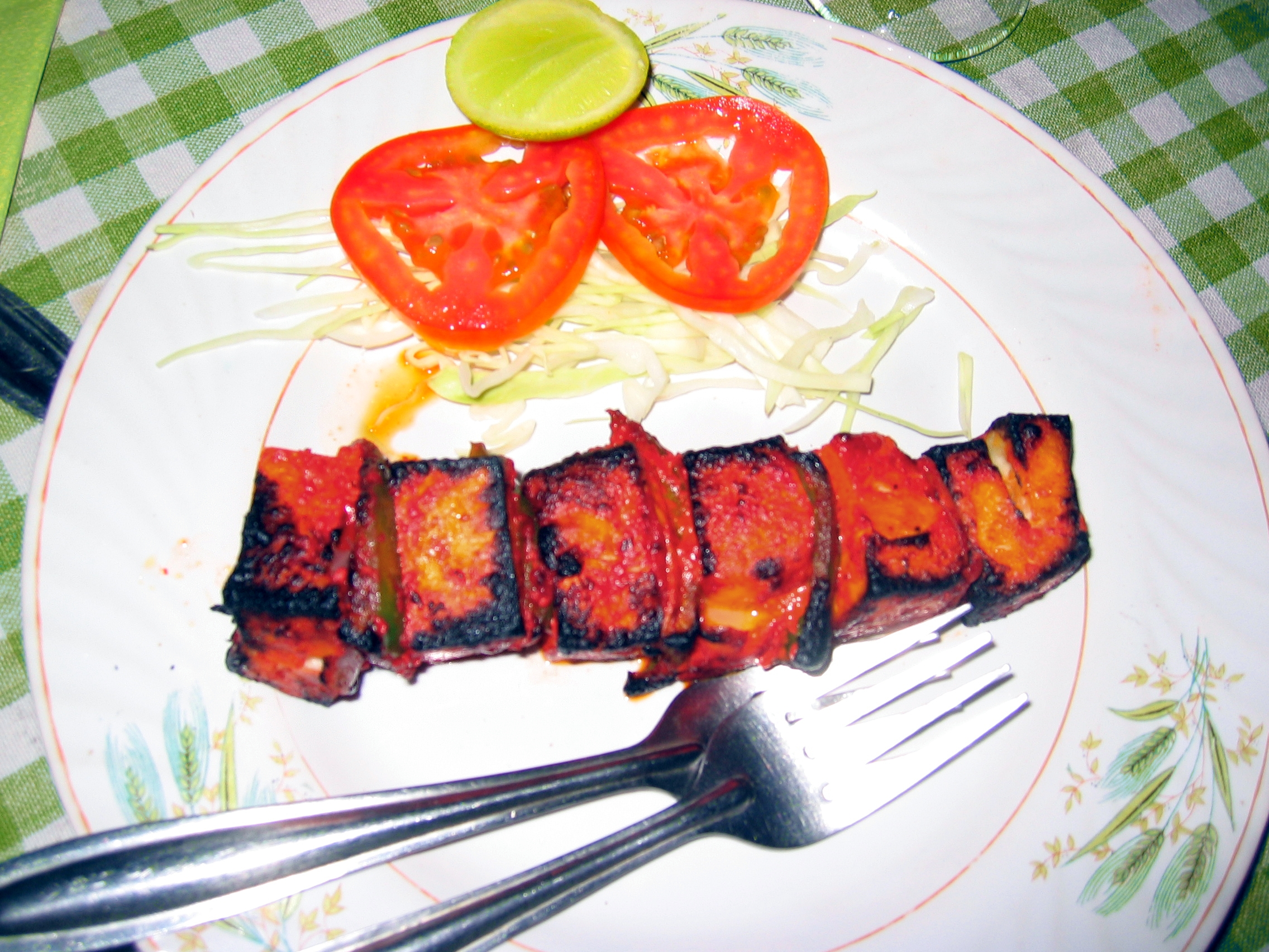 Paneer Tikka – chunks of Indian cheese, marinated in hot spices and grilled in a tandoor oven, served in a restaurant in Goa, India